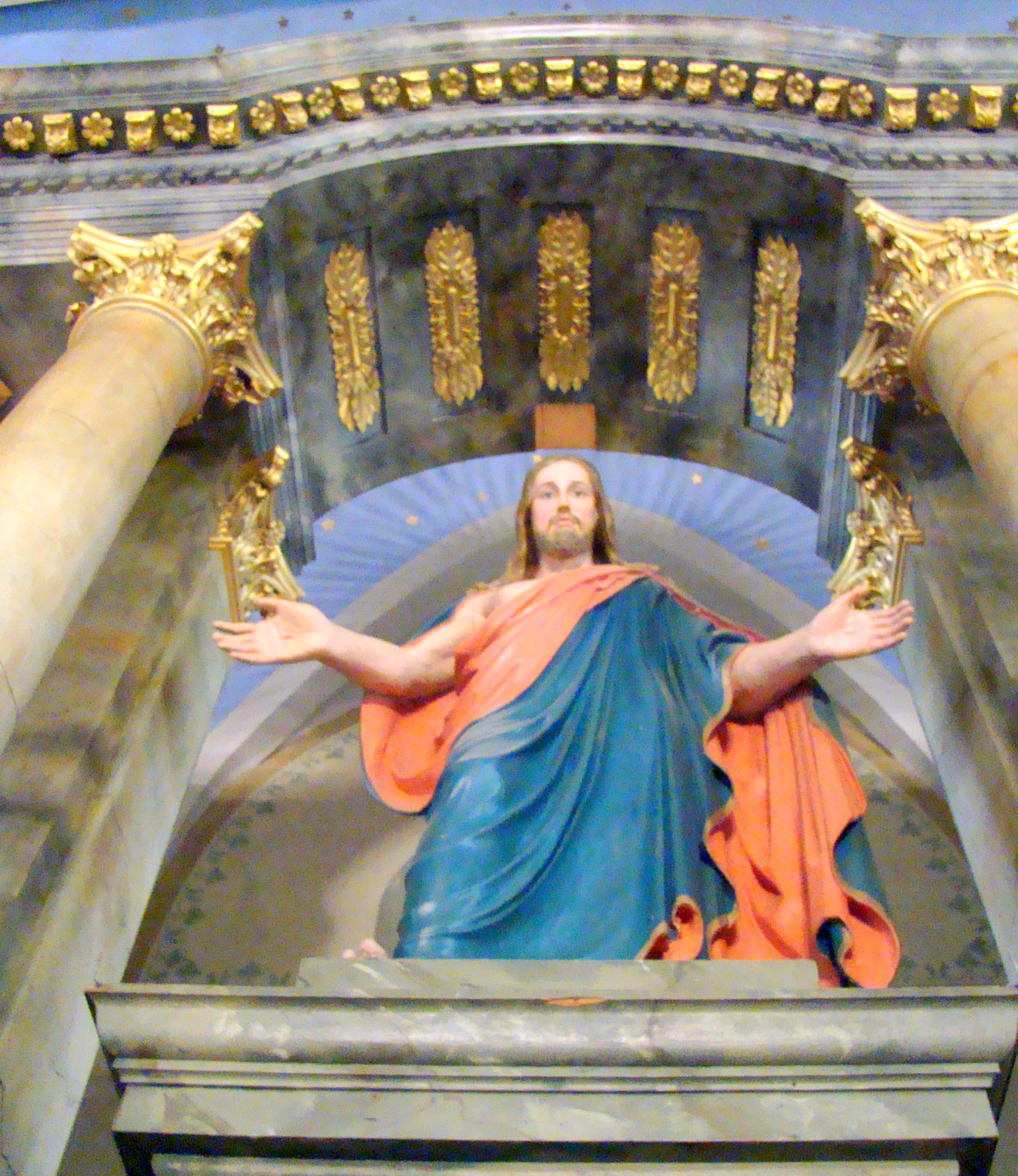 Fortified church in Cristian, Brașov County, Romania